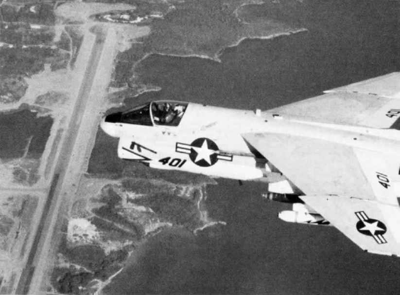 A U.S. Navy Ling Temco Vought A-7E-4-CV Corsair II (BuNo 156807) from attack squadron VA-87 Golden Warriors in flight over Port Salines airfield, Grenada, during the U.S. invasion of Grenada (Operation Urgent Fury), on or after 25 October 1983. VA-87 was assigned to Carrier Air Wing 6 (CVW-6) aboard the aircraft carrier USS Independence (CV-62).